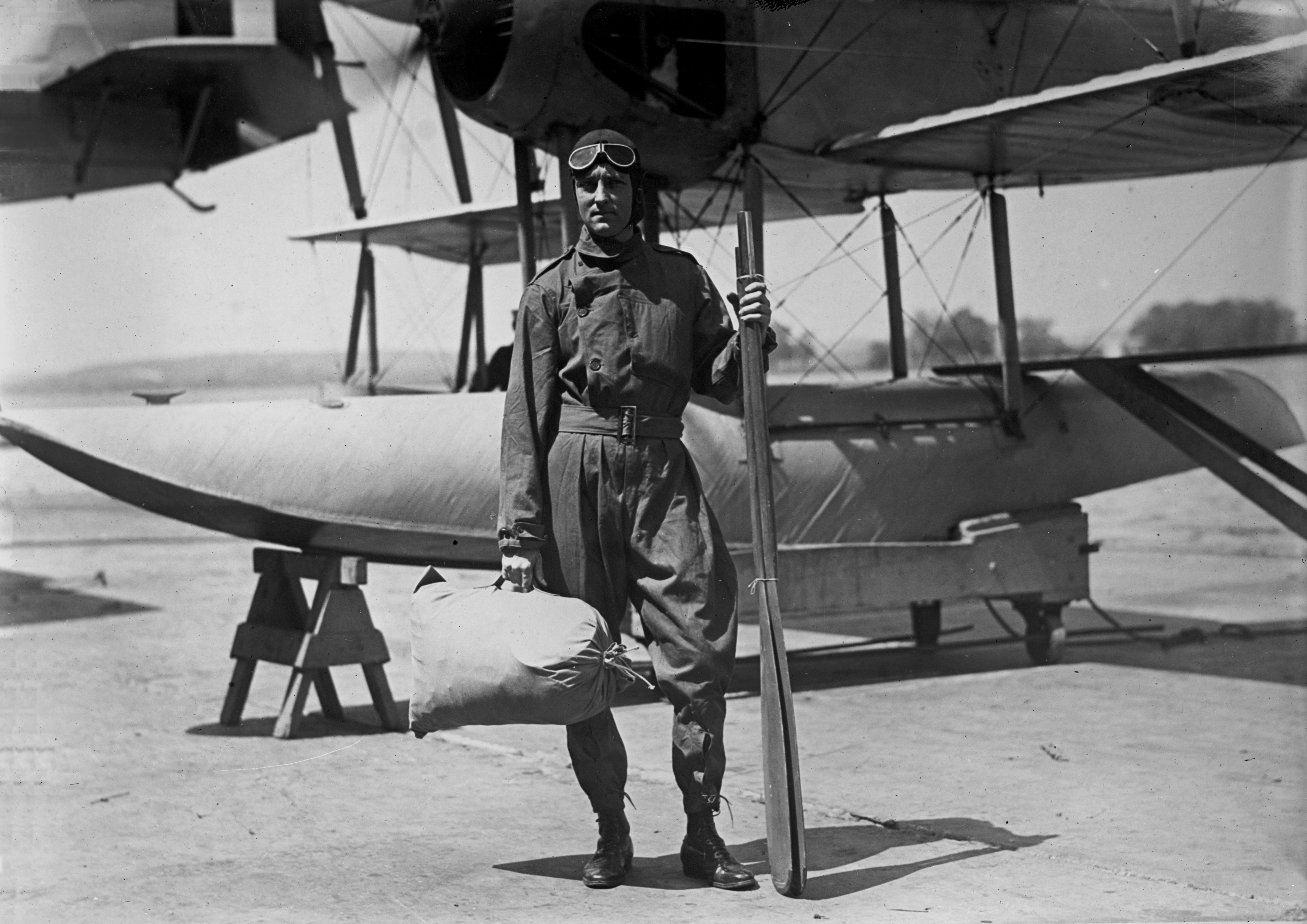 U.S. Navy Lt. Com. Richard E. Byrd in front of a Vought VE-7 Bluebird seaplane.